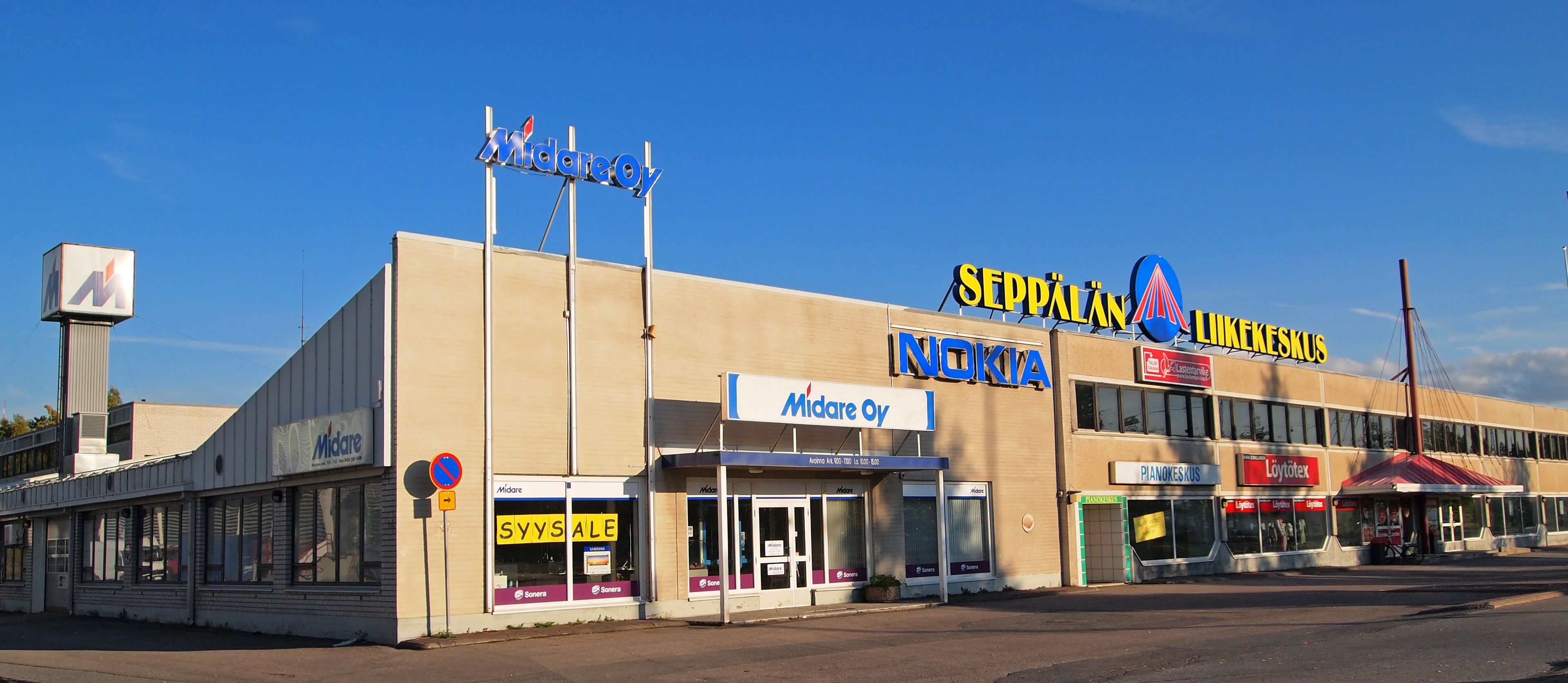 Building Seppälän Liikekeskus in Jyväskylä. This photograph was taken with an Olympus E-PL1.